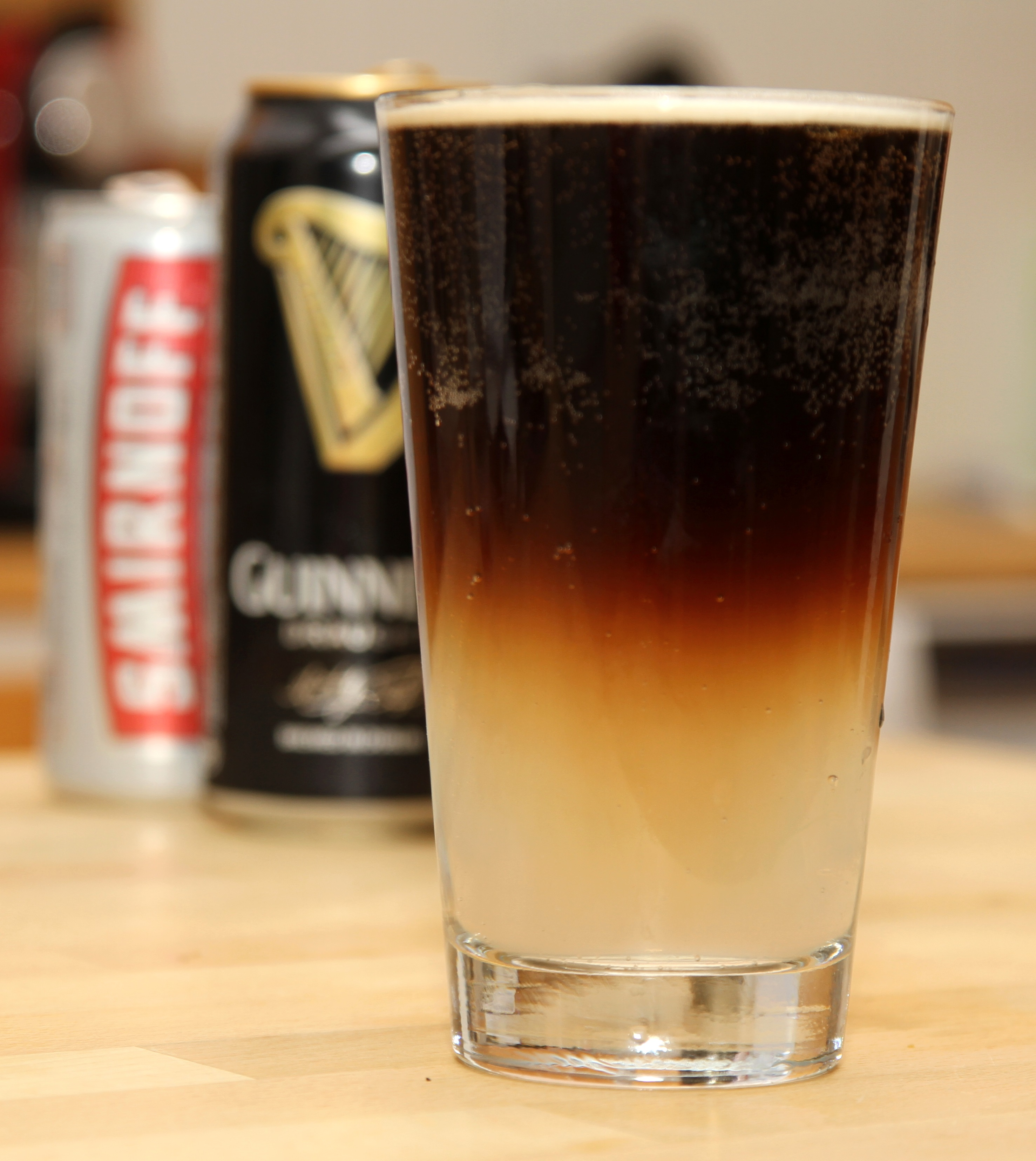 A Badger, a cocktail made of Guinness and Smirnoff Ice.